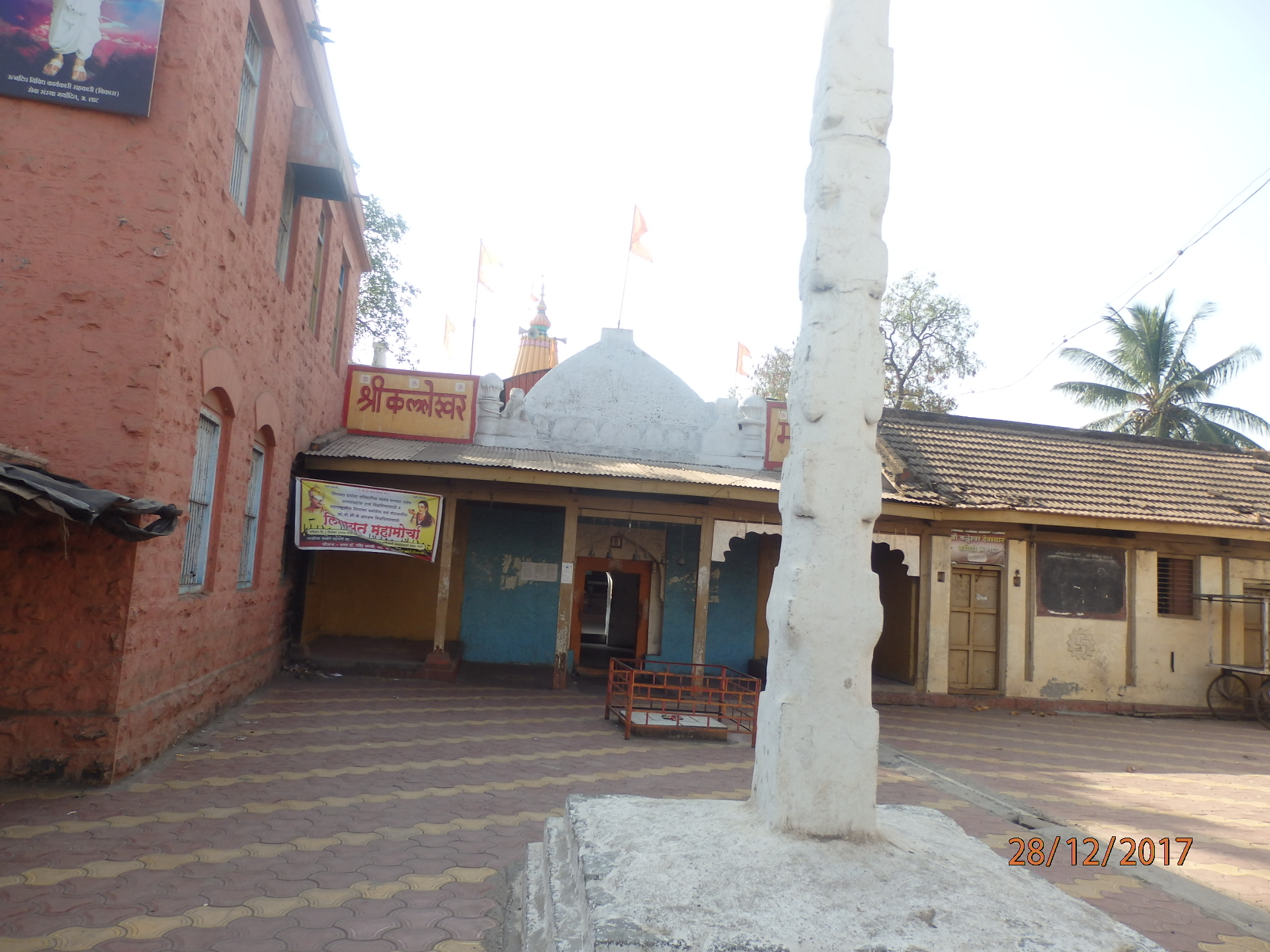 Kalleshwar temple, Abdul Lat, Maharashtra